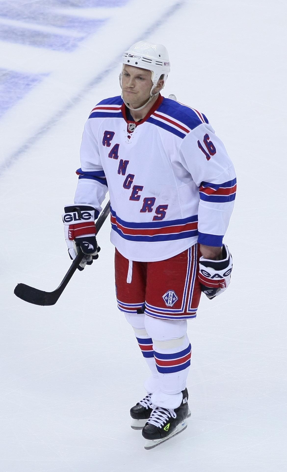 Sean Avery, 2009 playoffs